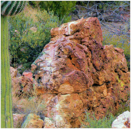 Mesothermal quartz vein at the Latin Heart gold mine where ore is laying on the ground.